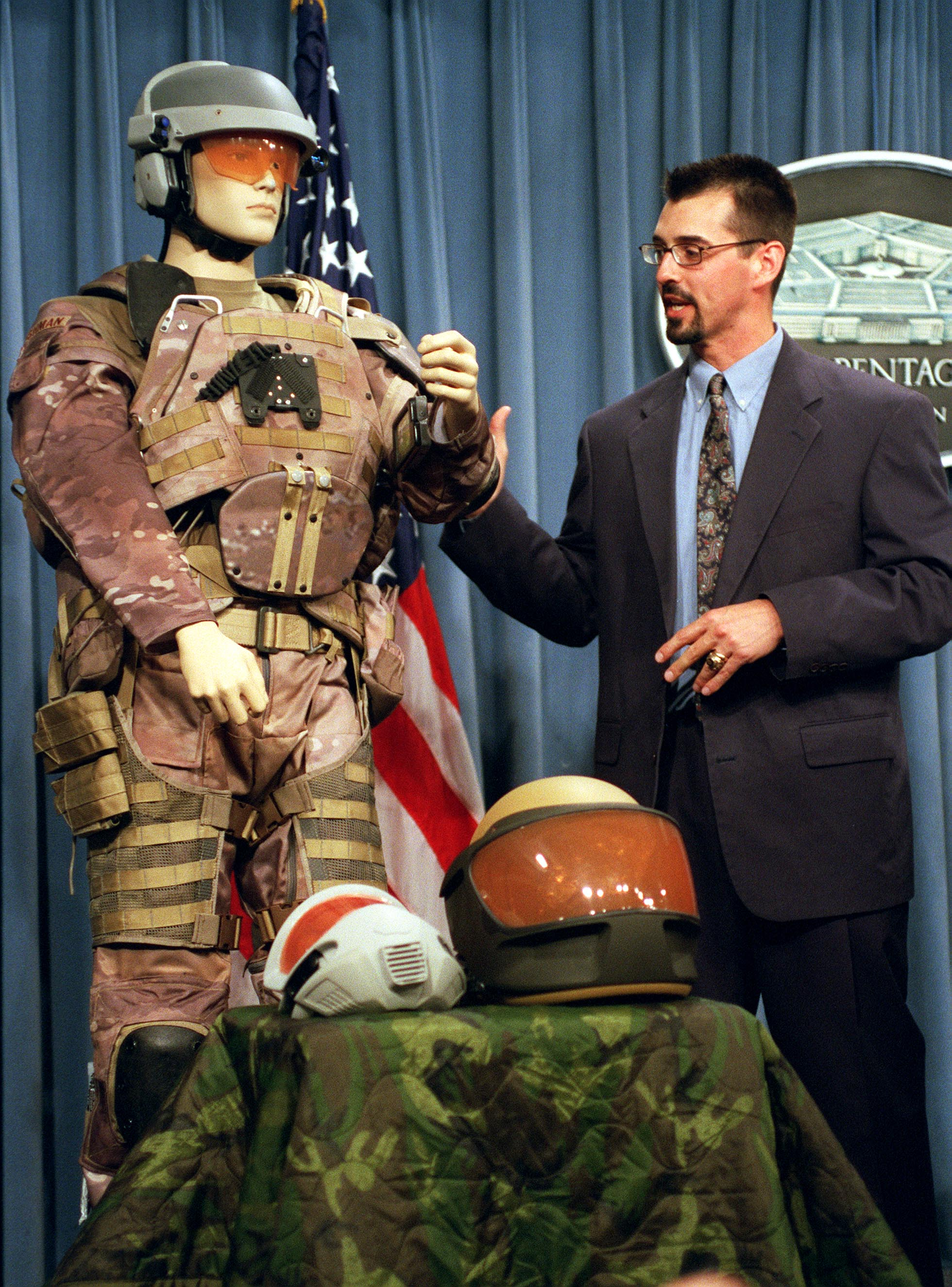 Dutch DeGay, a project engineer for the Objective Force Warrior program, briefs reporters on the Army's prototype combat uniform in the Pentagon on May 23, 2002. The helmet incorporates infrared thermal, day/night video cameras, chem-bio sensors, a global positioning system, broadcast heads-up display and ballistic protection. The torso garment incorporates body armor and has physiological status monitors that allows the individual soldier, as well as the medics on the battlefield, to know exactly what the individual soldier's physical condition is at any given time. The uniform is suitable for all climate conditions, having the capability of being heated or cooled. The combat uniform is being researched and developed at the U.S. Army's Soldier Systems Center, Natick, Mass.